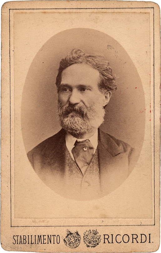 Portrait of Alfredo Piatti, composer (1822-1901). Photo by unknown, before 1901.